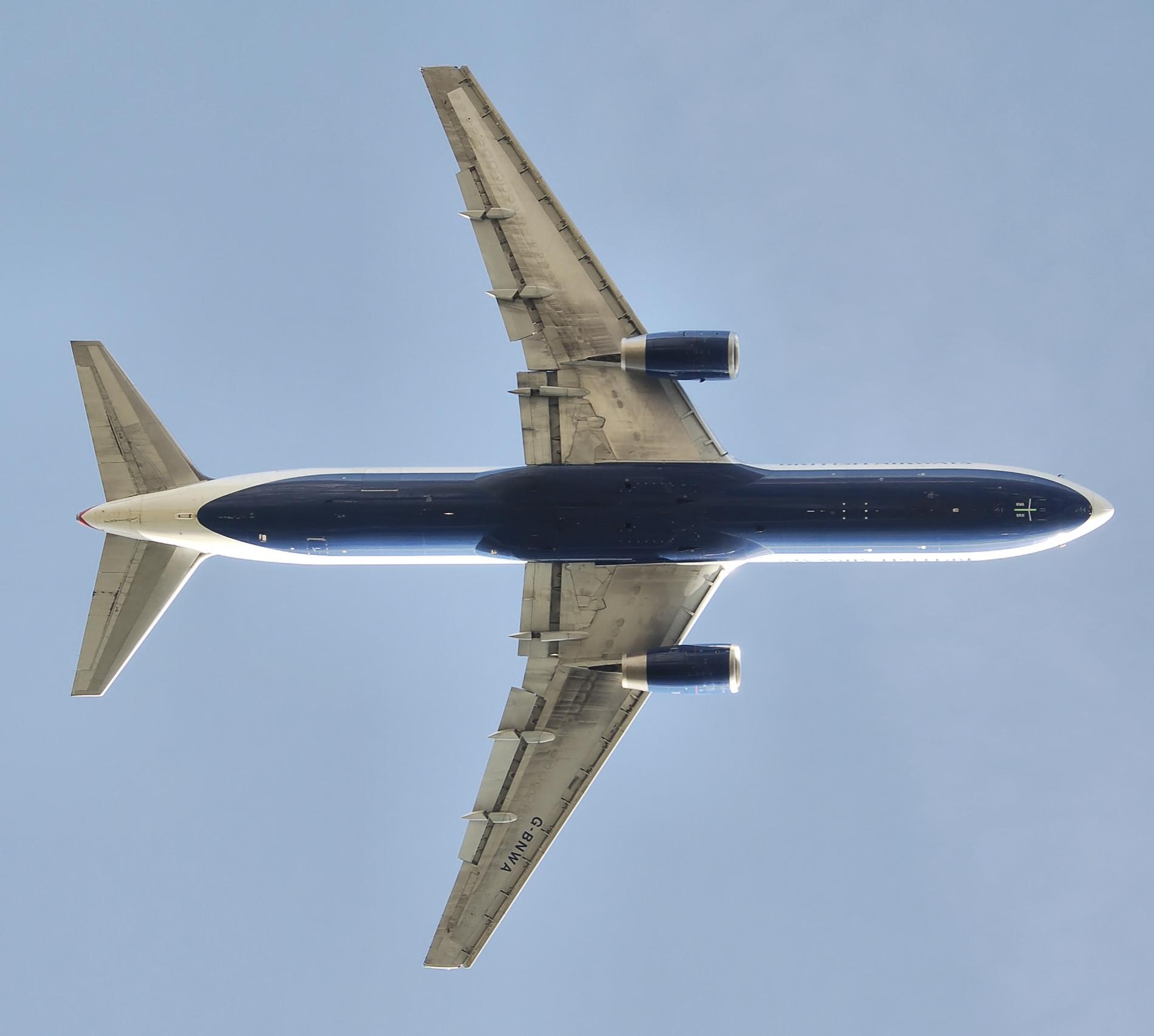 British Airways Boeing 767-300 (G-BNWA) takes off (over my head) from London Heathrow Airport, England. The undercarriages have retracted.